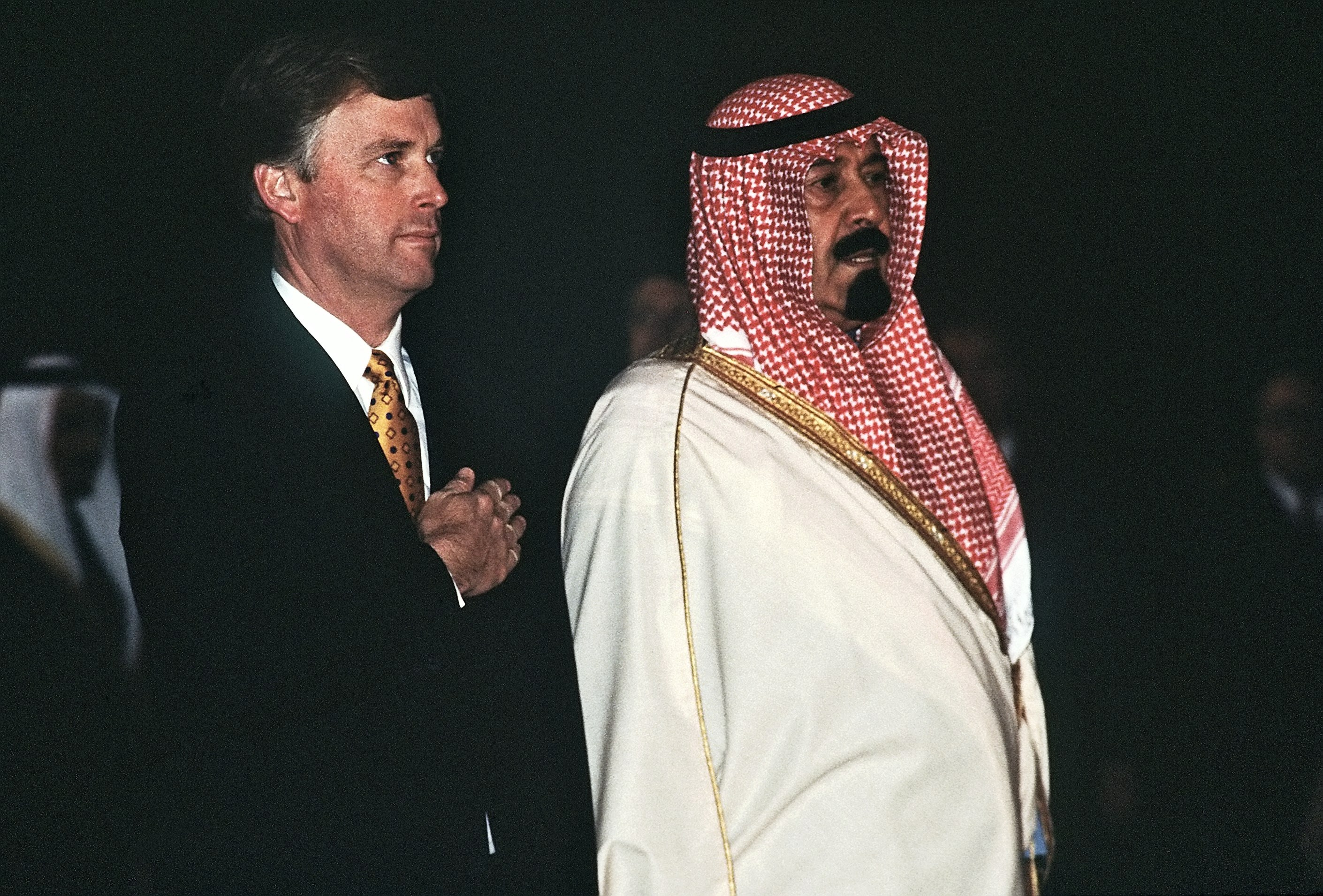 Vice President Quayle and Prince Abdullah of Saudi Arabia stands for the playing of the National Anthem. The dignitaries are meeting to discuss US military intervention in the Persian Gulf during Operation Desert Shield.